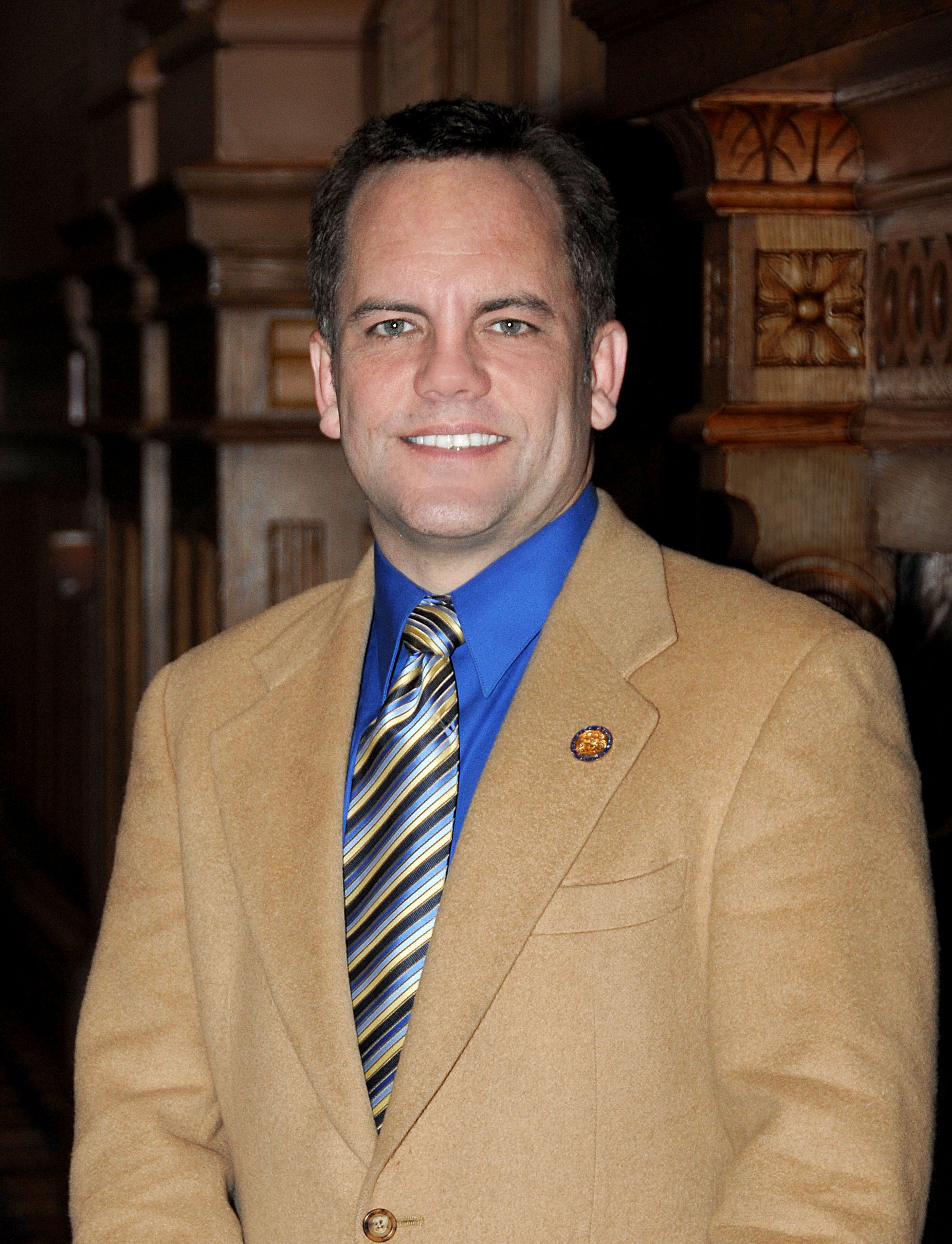 Headshot of State Sen. Curt Thompson